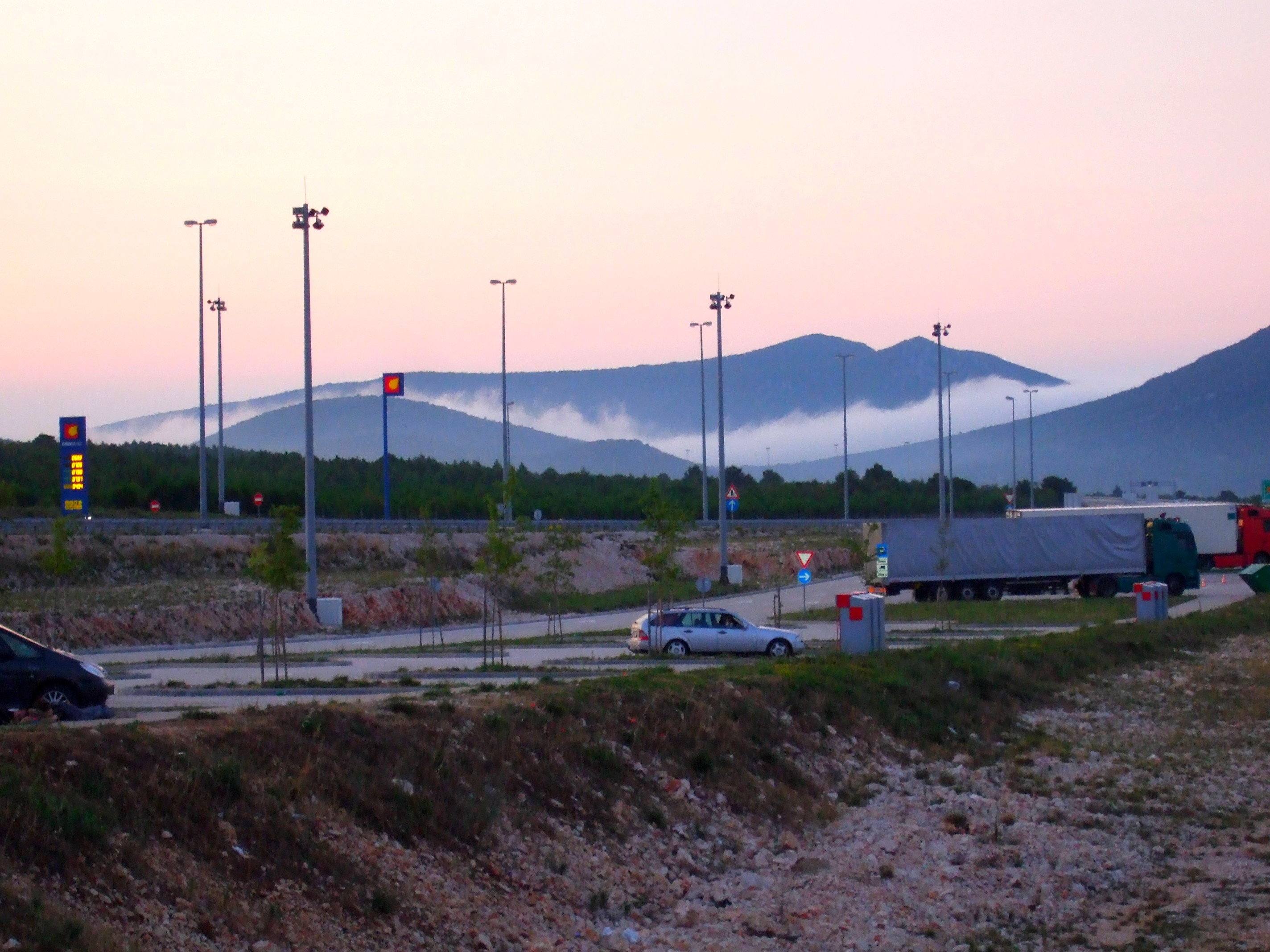 Morning fog over the motorway near Split in Croatia.